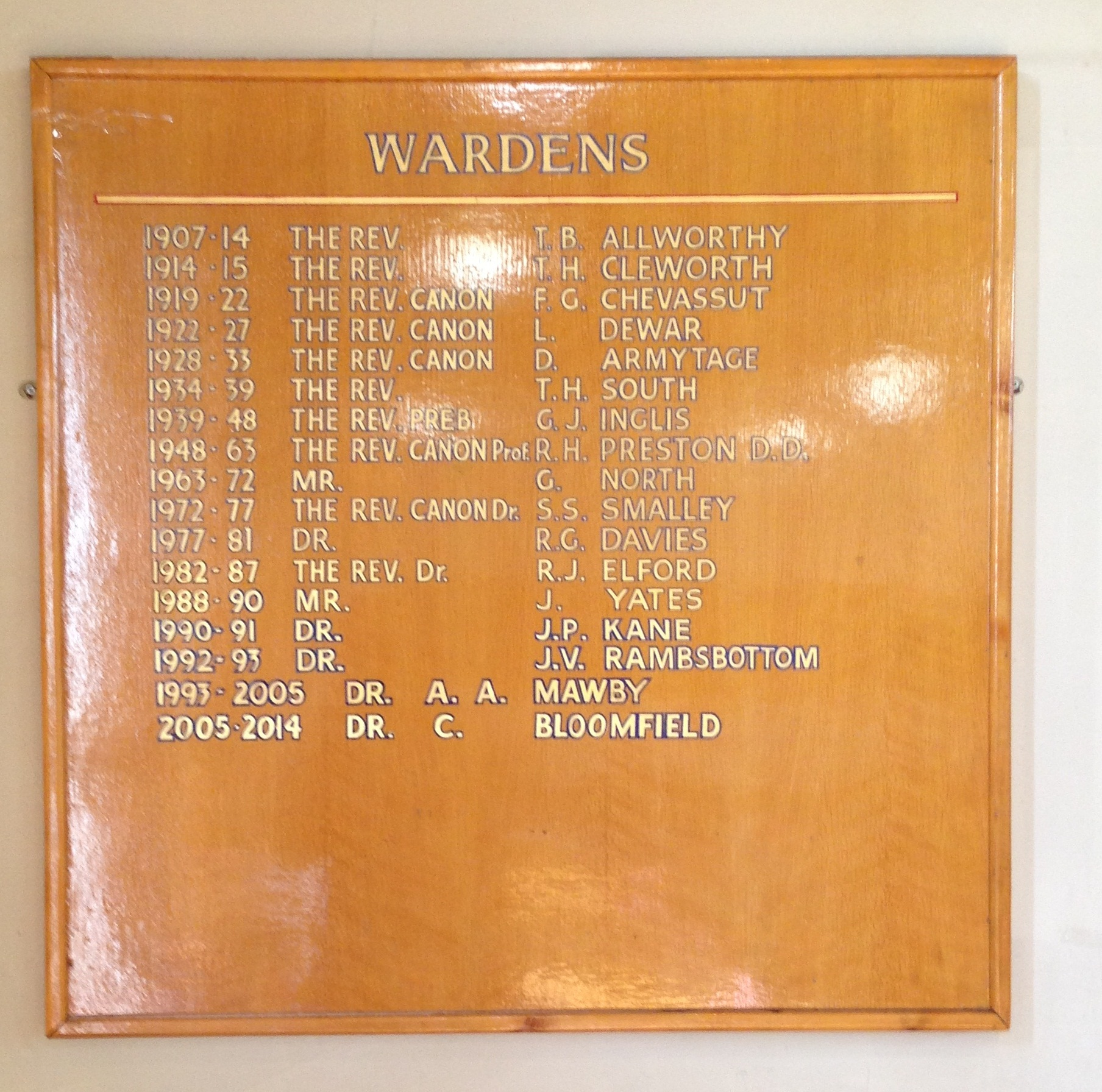 wardens plaque